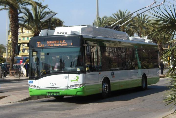 Solaris Trollino 12 trolleybus (#708) in Cagliari, Italy. Built 2011, CTM from Cagliari operator.